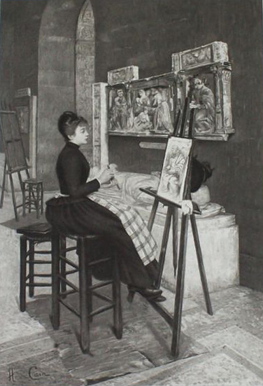 At The Louvre. Photogravure from H. Caïn's painting